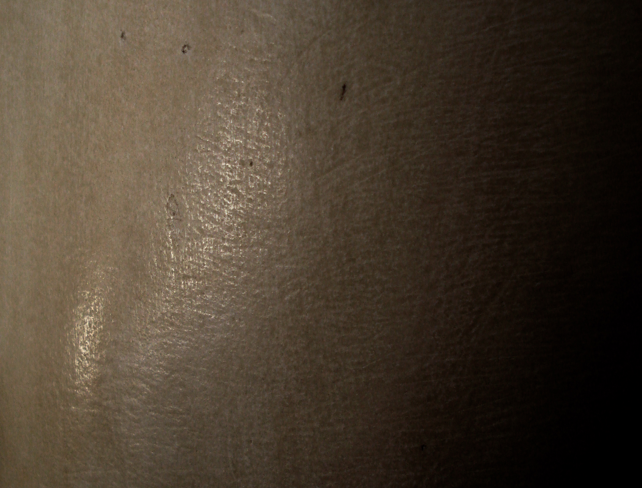 detail of Damoxenos' thigh, showing the textured finishing of the surface. contrasts strongly enhanced for best view